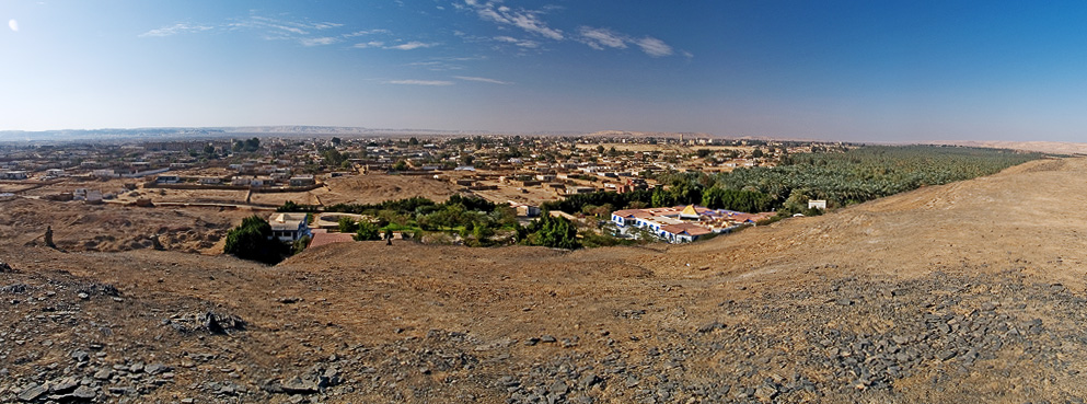 bahariya oasis spotted from black mountain own photo, feb 9, 2005 photo: nomo/michael hoefner